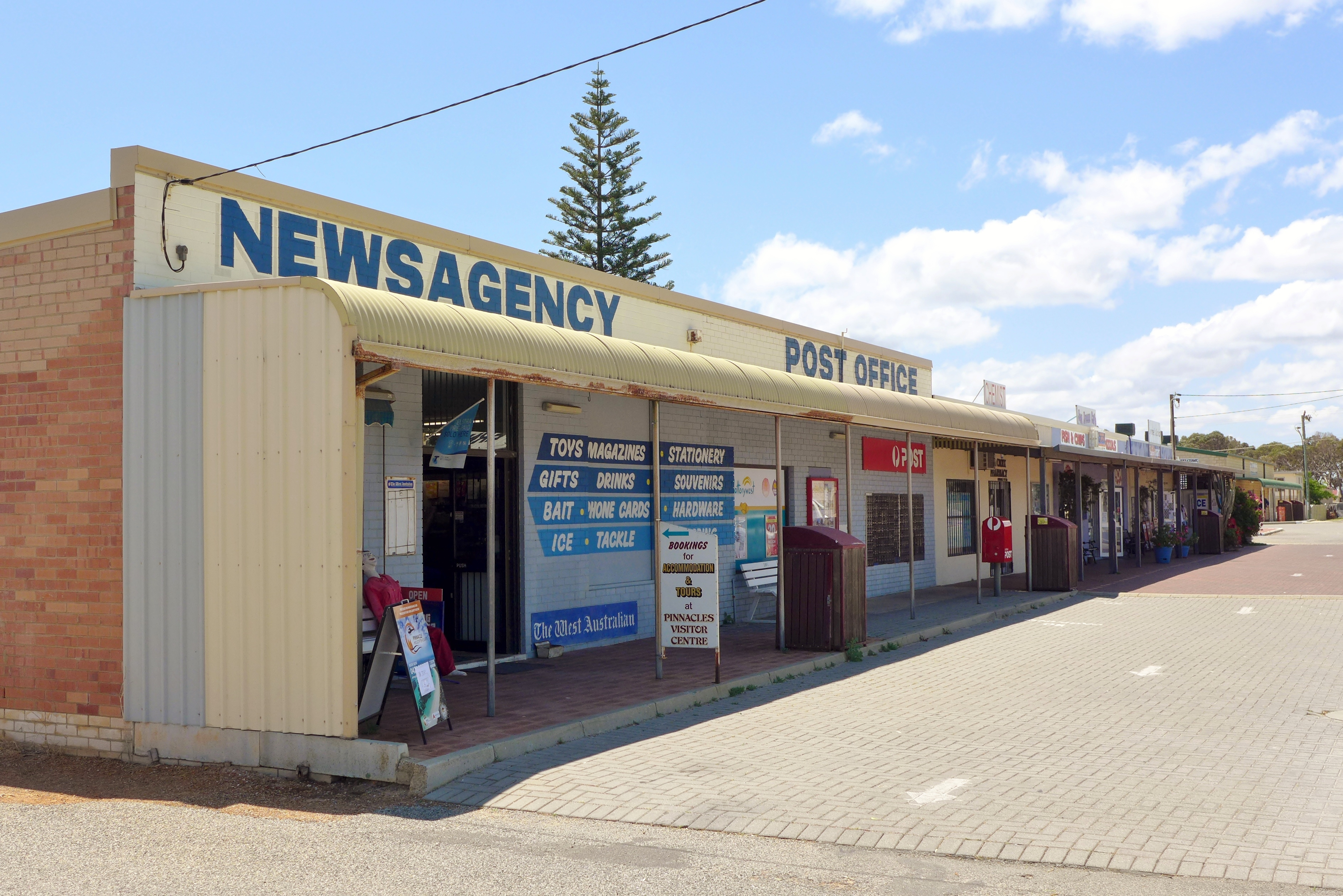 View of the main shopping strip at Cervantes, Western Australia.